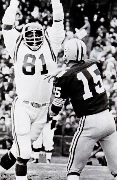 Former Minnesota Vikings defensive end Carl Eller